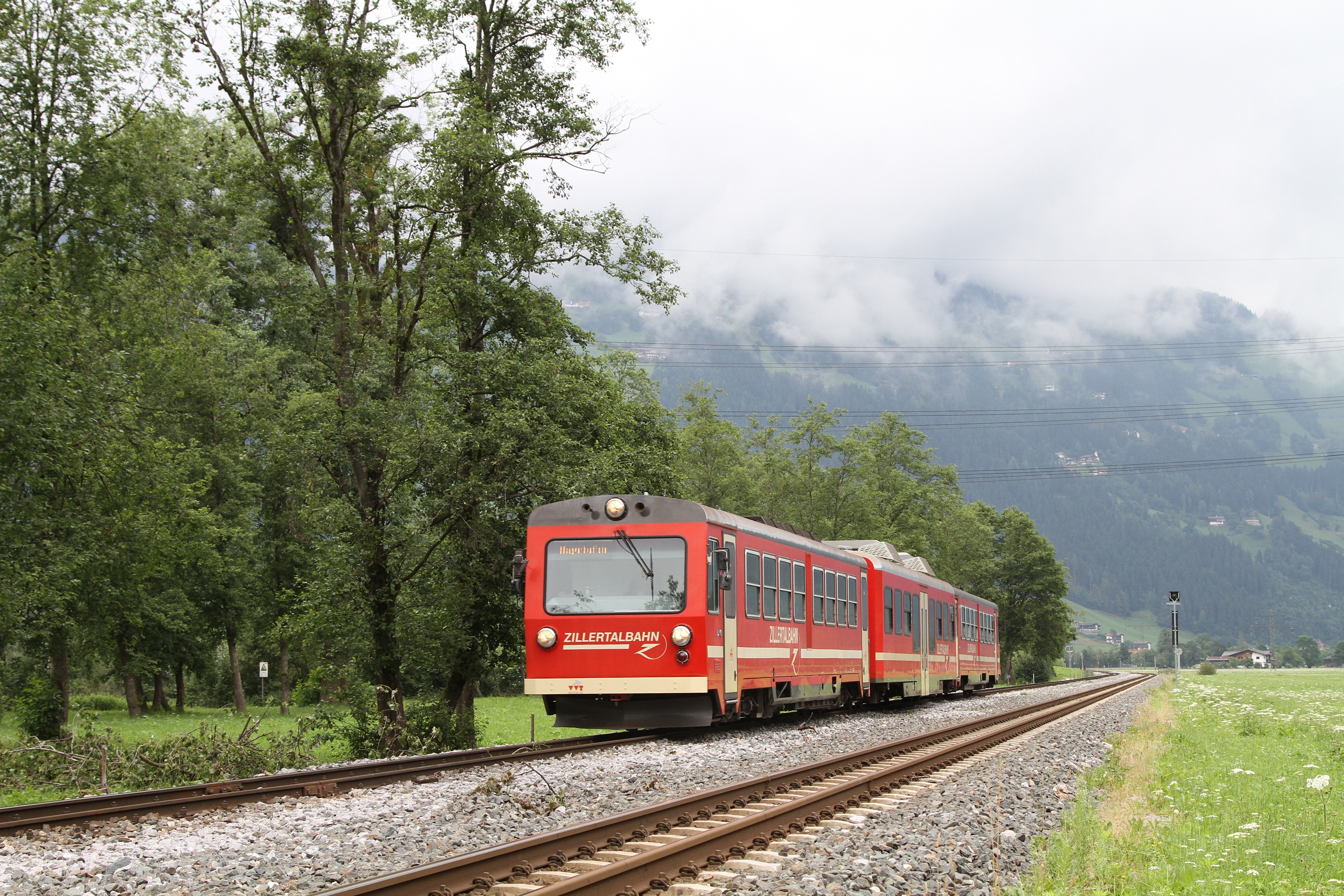 Zillertalbahn DMU train on the double track section between Zell am Ziller and Ramsau-Hippach.